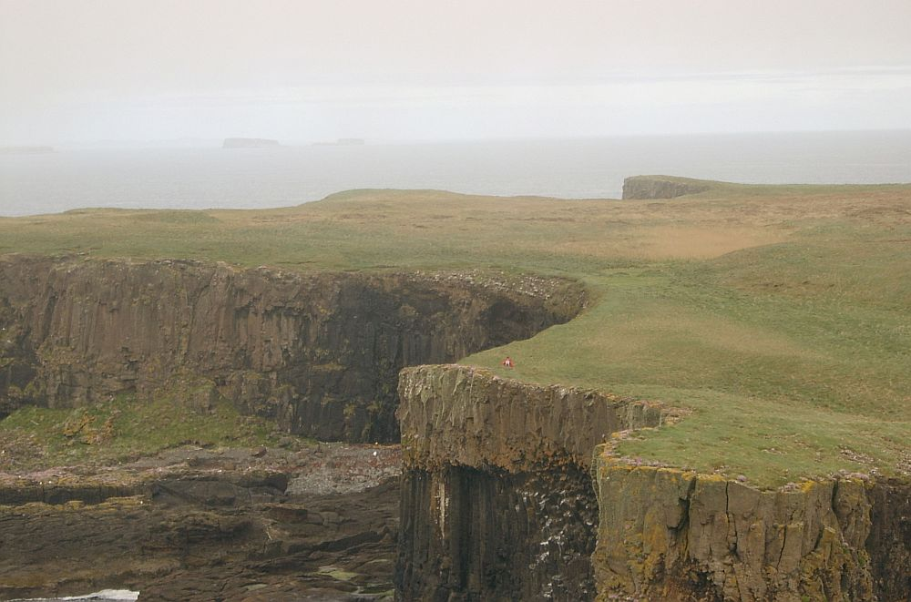 Isle of Staffa - cliffs